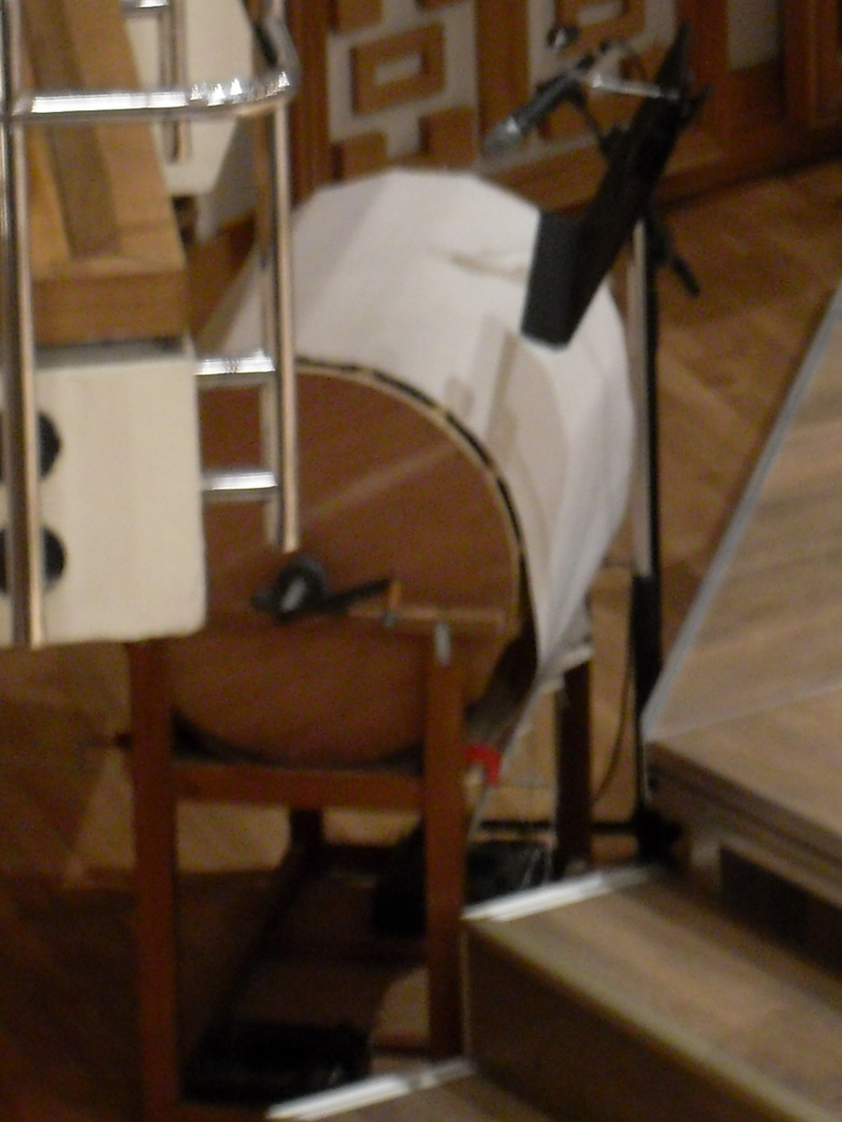 A wind machine used in Hong Kong Philharmonic Orchestra for the performance of Vaughan Williams's Sinfonia antartica on 18th January 2013